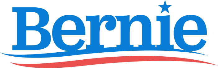 Bernie Sanders presidential campaign logo, 2016